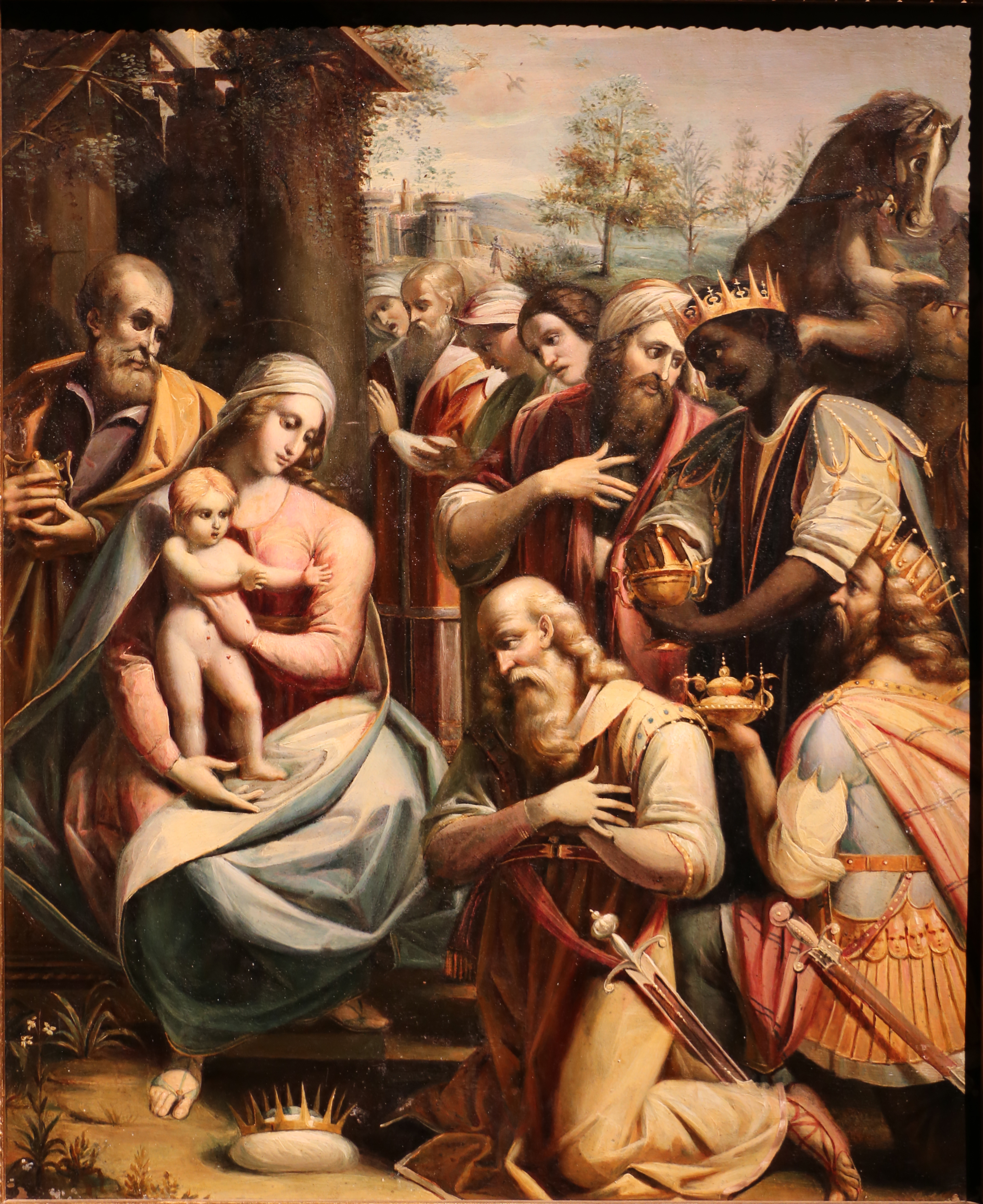 Capolavori Sibillini (2017-2018 exhibition)